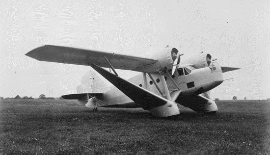 Bellanca Model 77-140 Bomber.